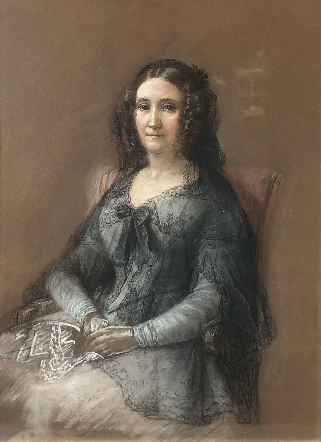 Pastel portrait of French writer Sophie Gay (1776-1852), by Claire Laloua-Cosson, 1842